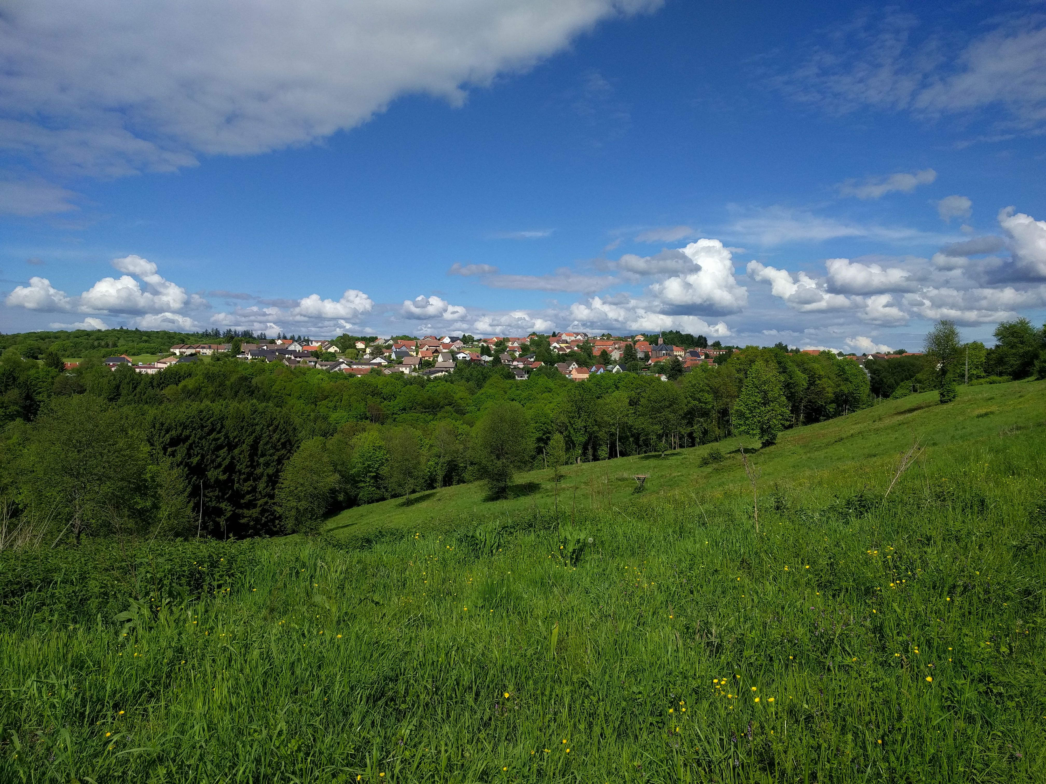 View of the village of Lemberg, Moselle, France